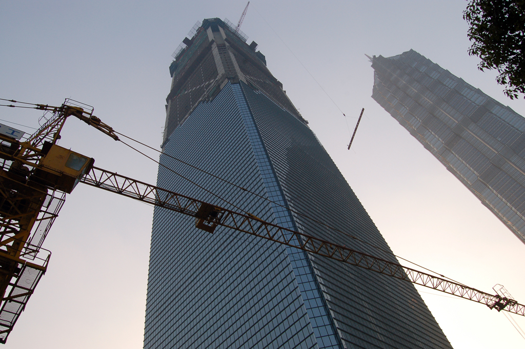 A view of the Shanghai World Financial Center, under construction. Next to it is the Jin Mao Building.